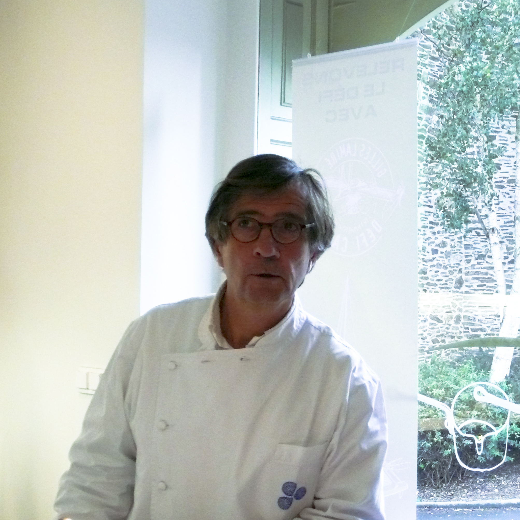 Olivier Roellinger at cancale 2010